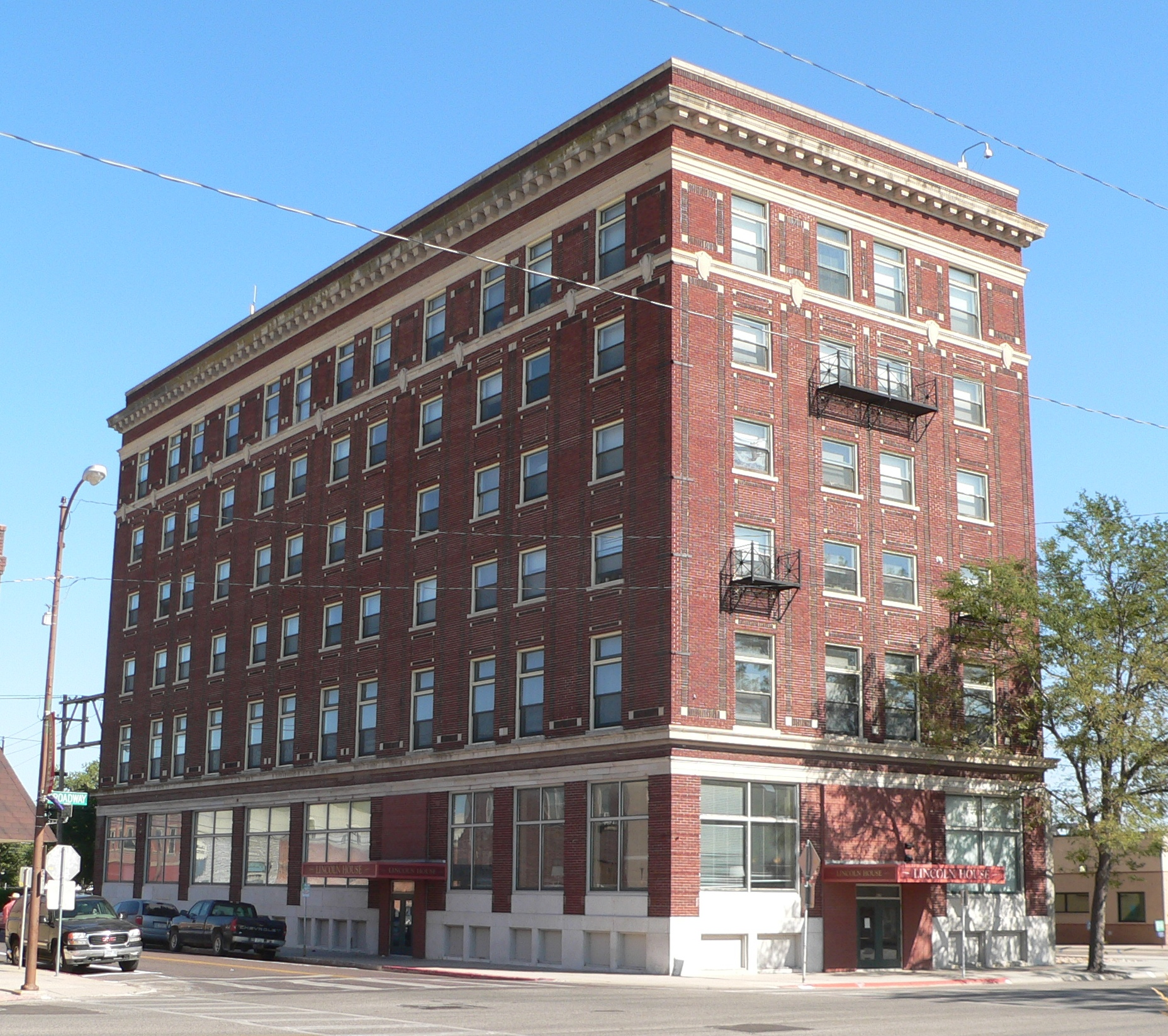 Lincoln Hotel at southeast corner of 14th Street and Broadway in Scottsbluff, Nebraska; seen from the northwest. The Classical Revival building was constructed in 1918. It is listed in the National Register of Historic Places.